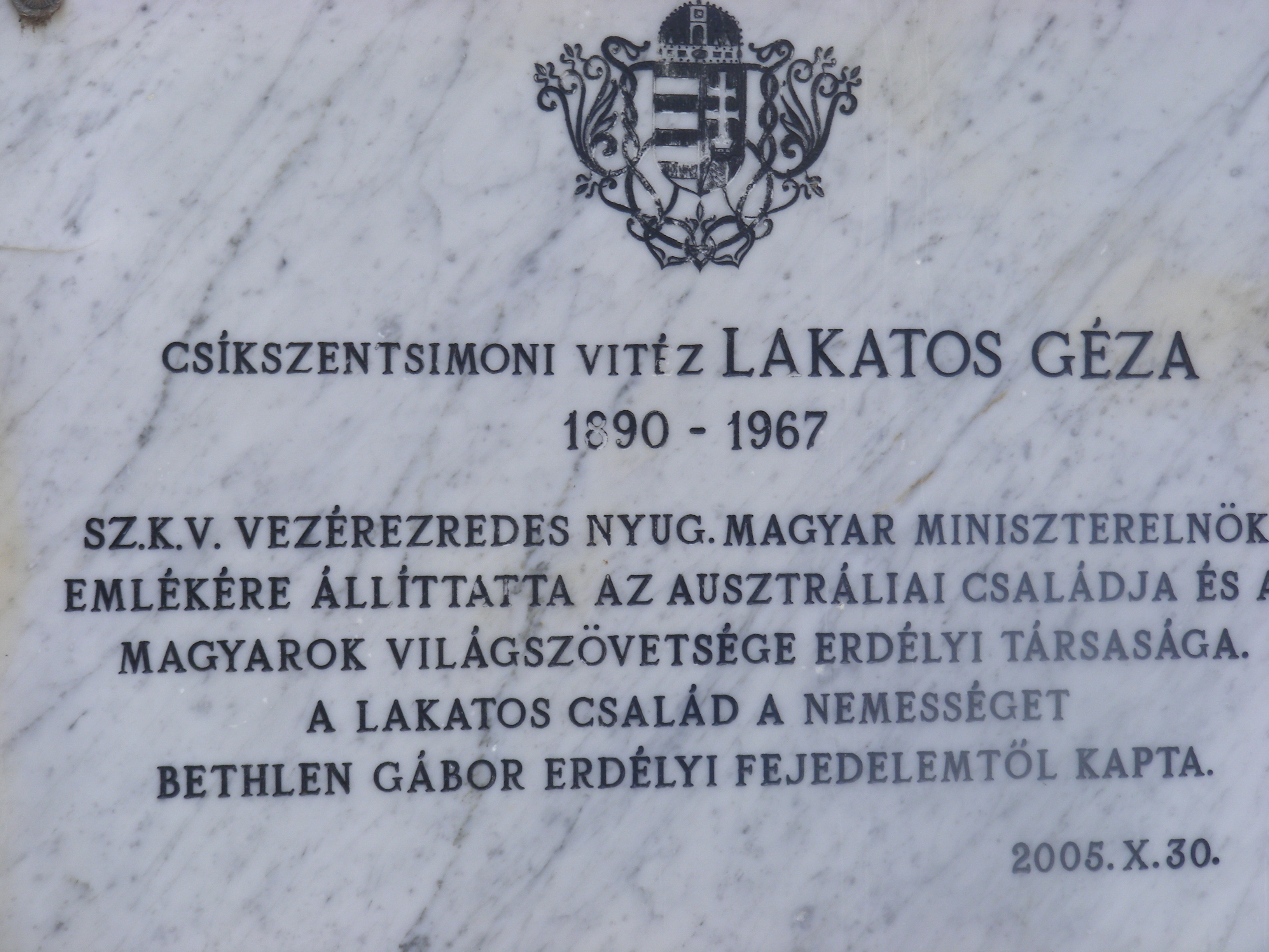 Memorial of Géza Lakatos, prime minister of Hungary in Csatószeg (Cetăţuia), Romania.